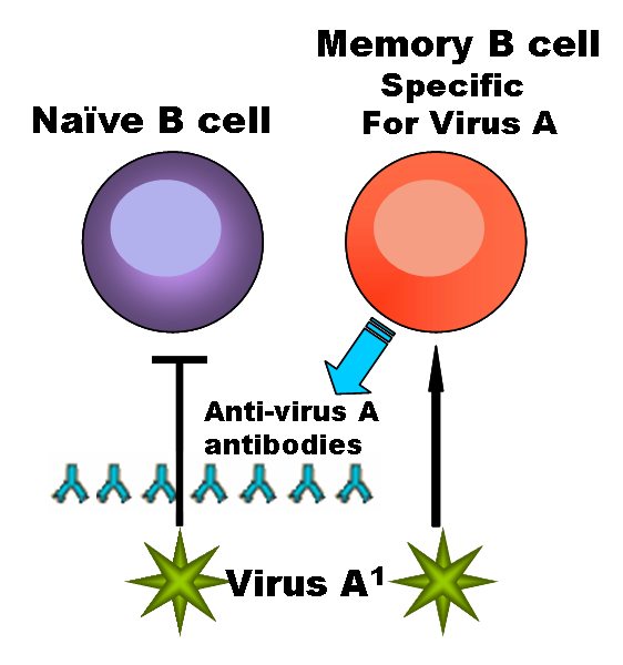 Original antigenic sin, descriptive diagram. Original antigenic sin refers to the propensity of the body's immune system to preferentially utilize immunological memory based on a previous infection when a second slightly different version of that foreign entity is encountered.